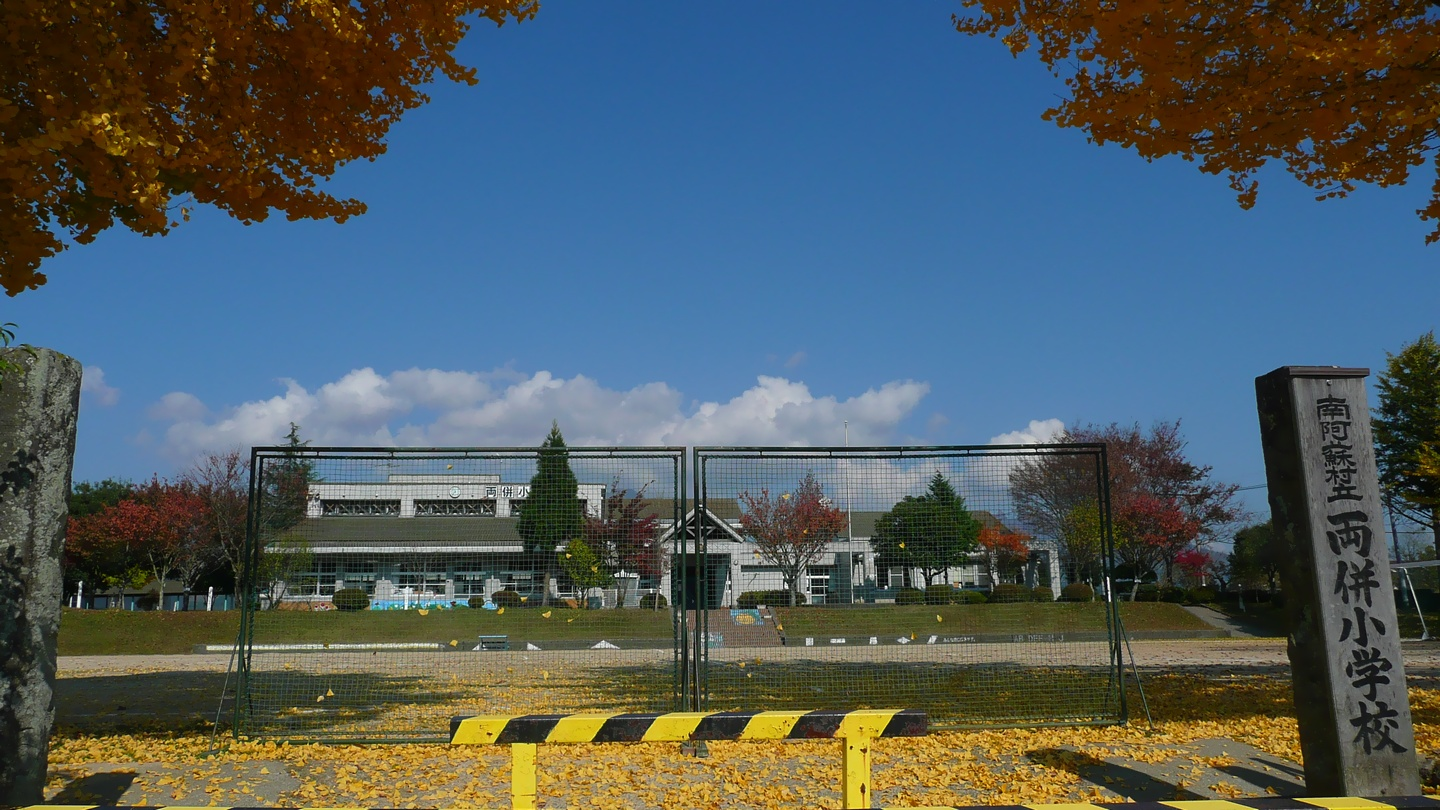 Ryouhei Elementary School (Minamiaso Village, Kumamoto, Japan)